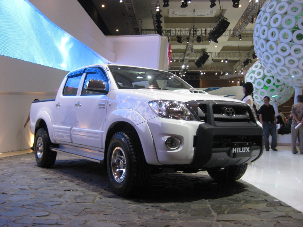 2010 Toyota Hilux 3.0 G Diesel Double Cab (KUN26).